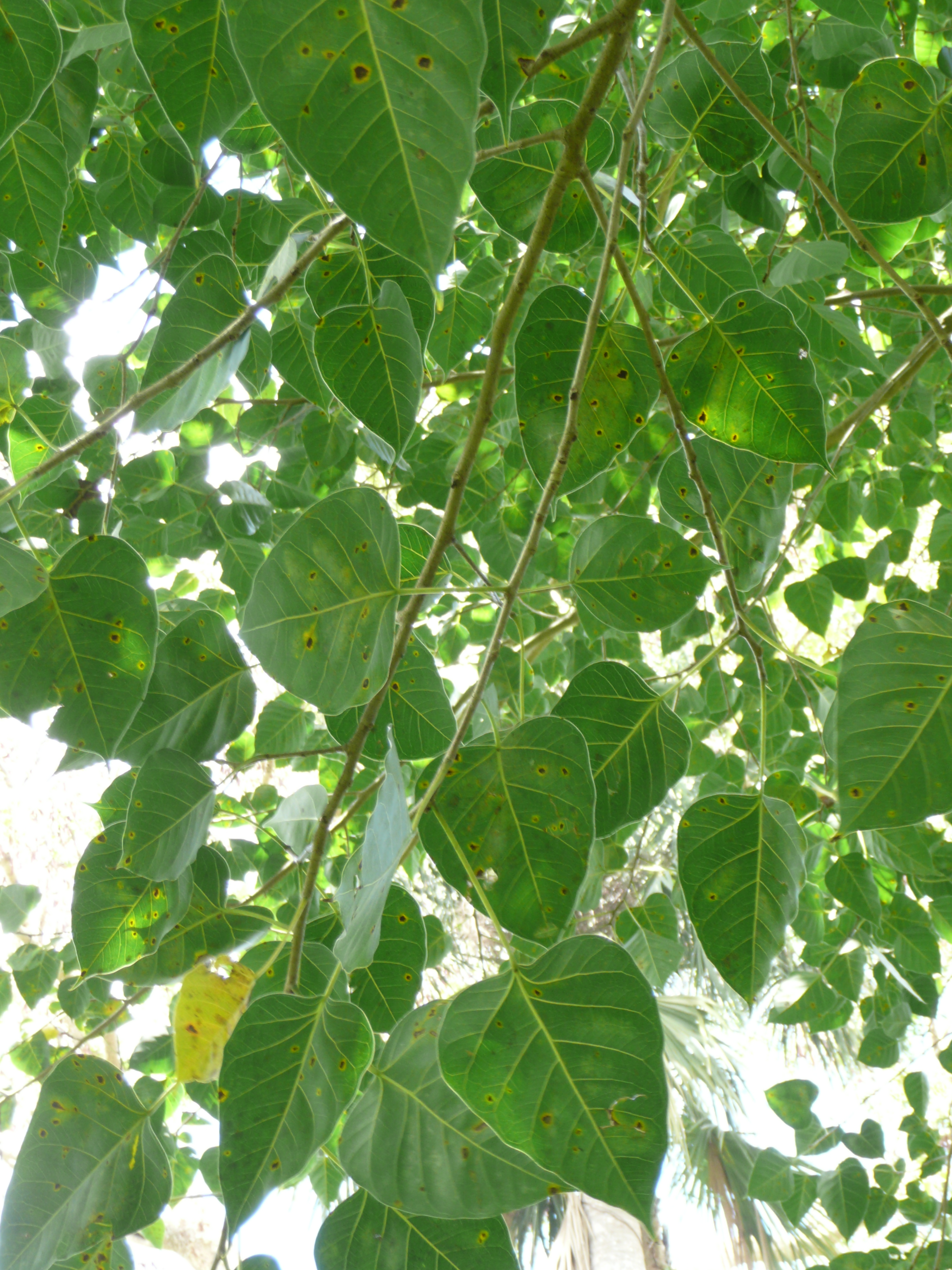 Ficus religiosa in Sir Seewoosagur Ramgoolam Botanical Garden Map: 20° 6' 25" S 57° 34' 46" E